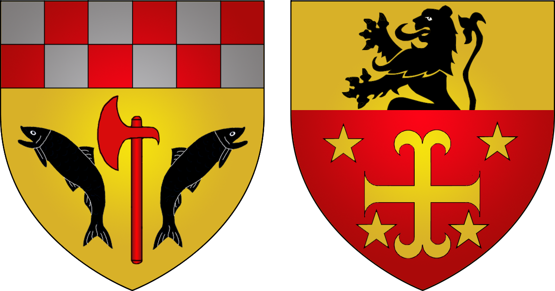 Coat of arms of the municipality of Kiischpelt, Luxembourg